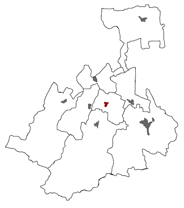 Location of the town of Ardon in North Ossetia, Russia